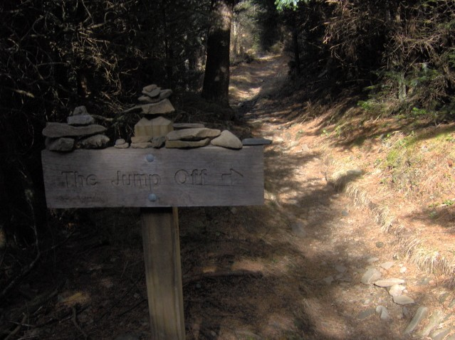 The Jumpoff Trailhead along the Boulevard Trail, .2 miles from the Boulevard's junction with the Appalachian Trail in the Great Smoky Mountains of Tennessee and North Carolina. The Jumpoff Trail crosses the summit of Mt. Kephart en route to a narrow cliff overlooking the eastern and central Smokies. The Jumpoff Trail is appx. 0.3 miles long.